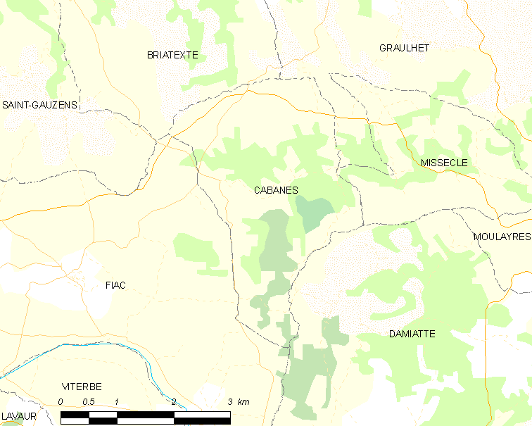 Map of French municipality Cabanès